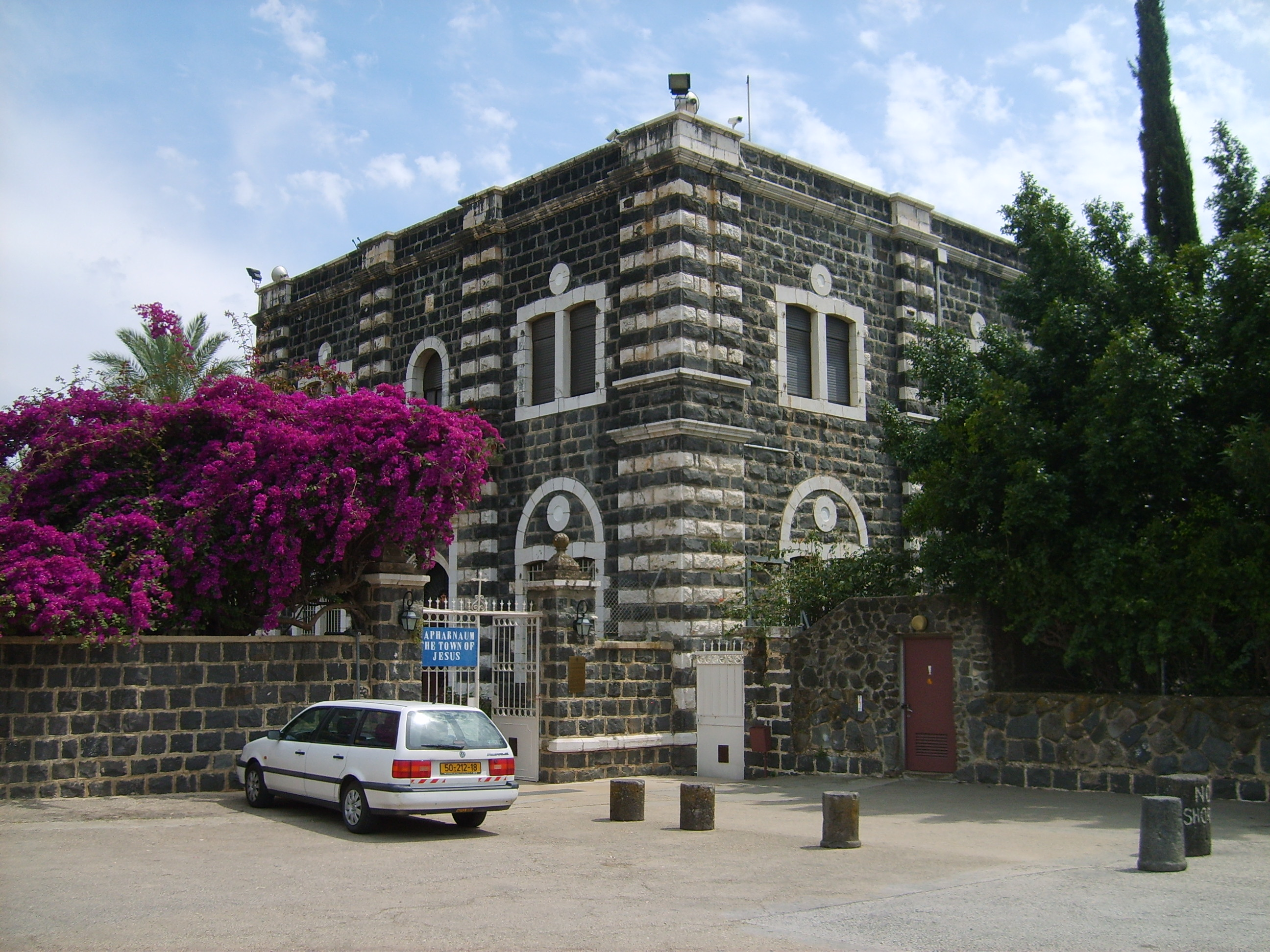 Entrance to the Franciscan part of Capernaum.